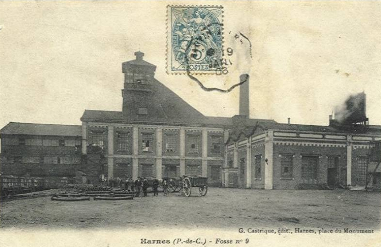 Pit 9 of the Compagnie des mines de Courrières at Harnes, France.